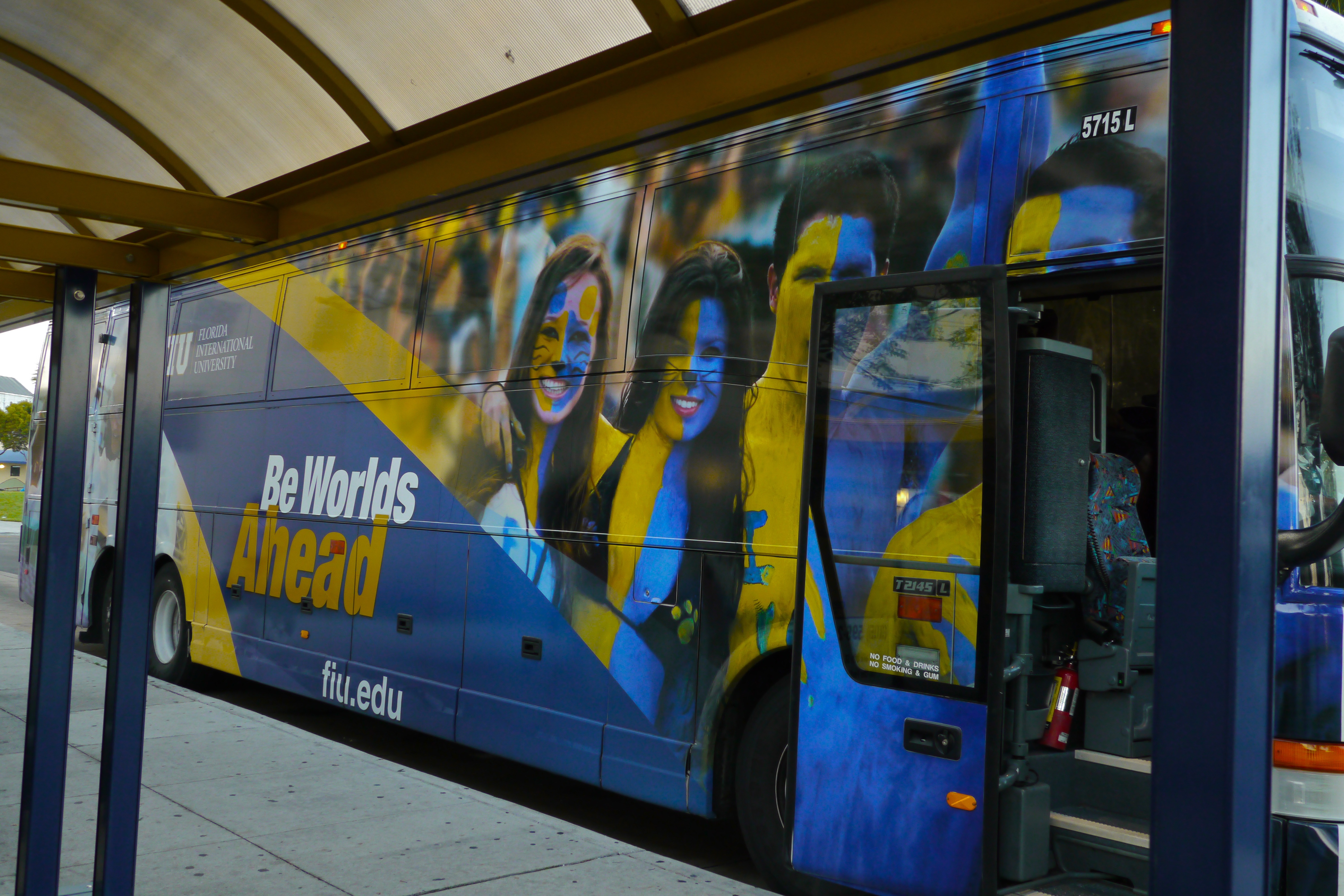 The FIU Panther Express shuttle